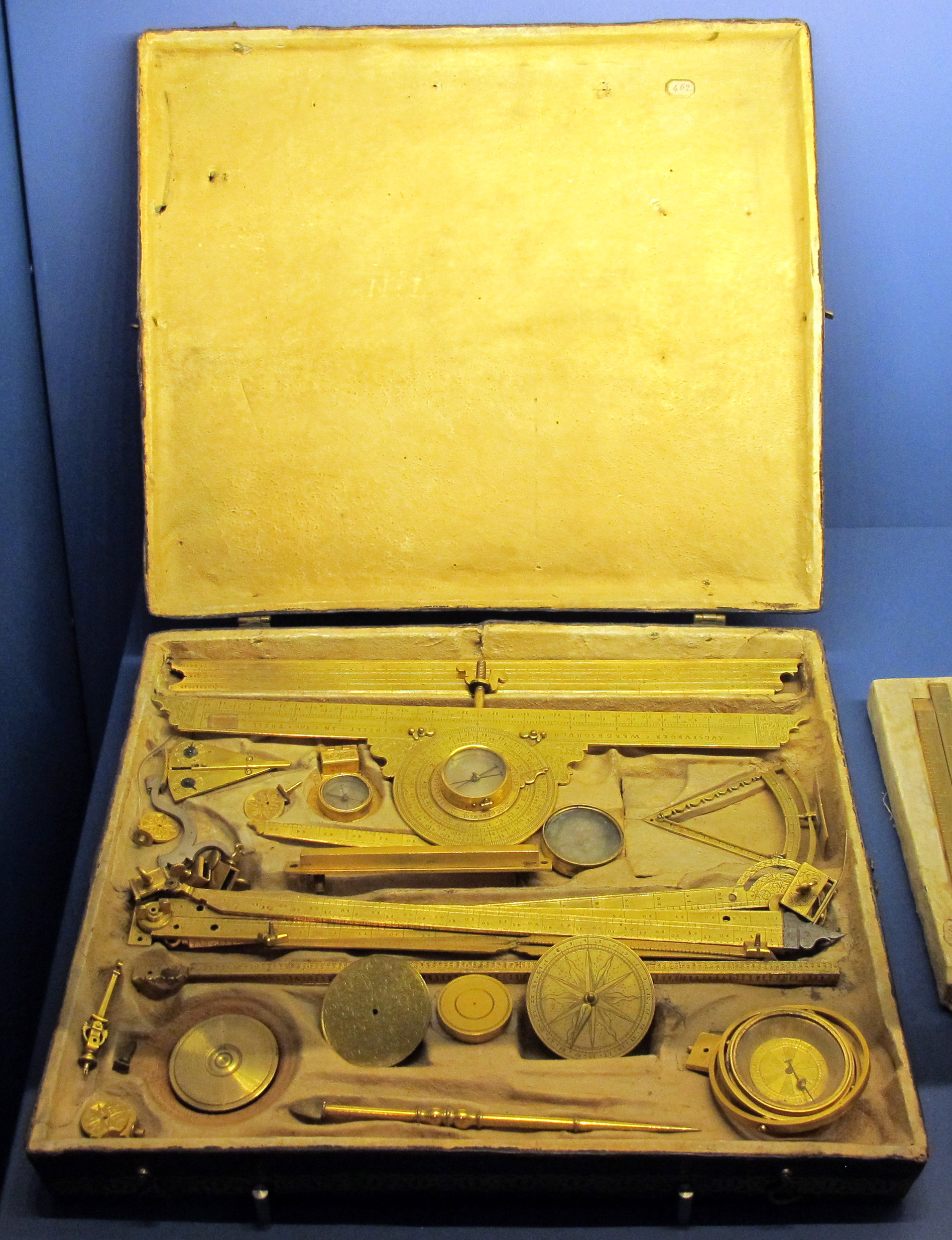 Box of mathematical instruments